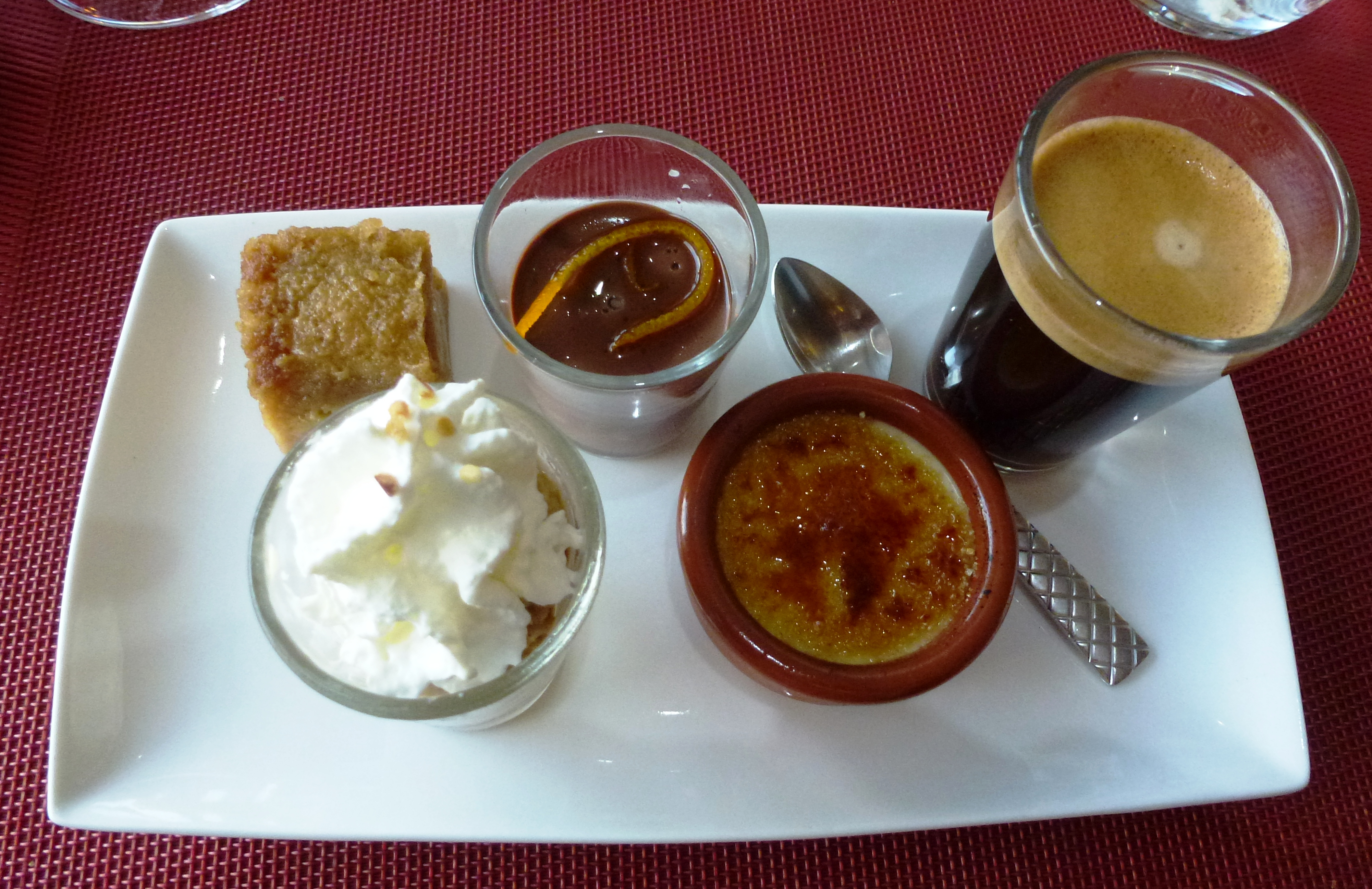 Café Gourmand in La-Londe as a arrangement with an espresso